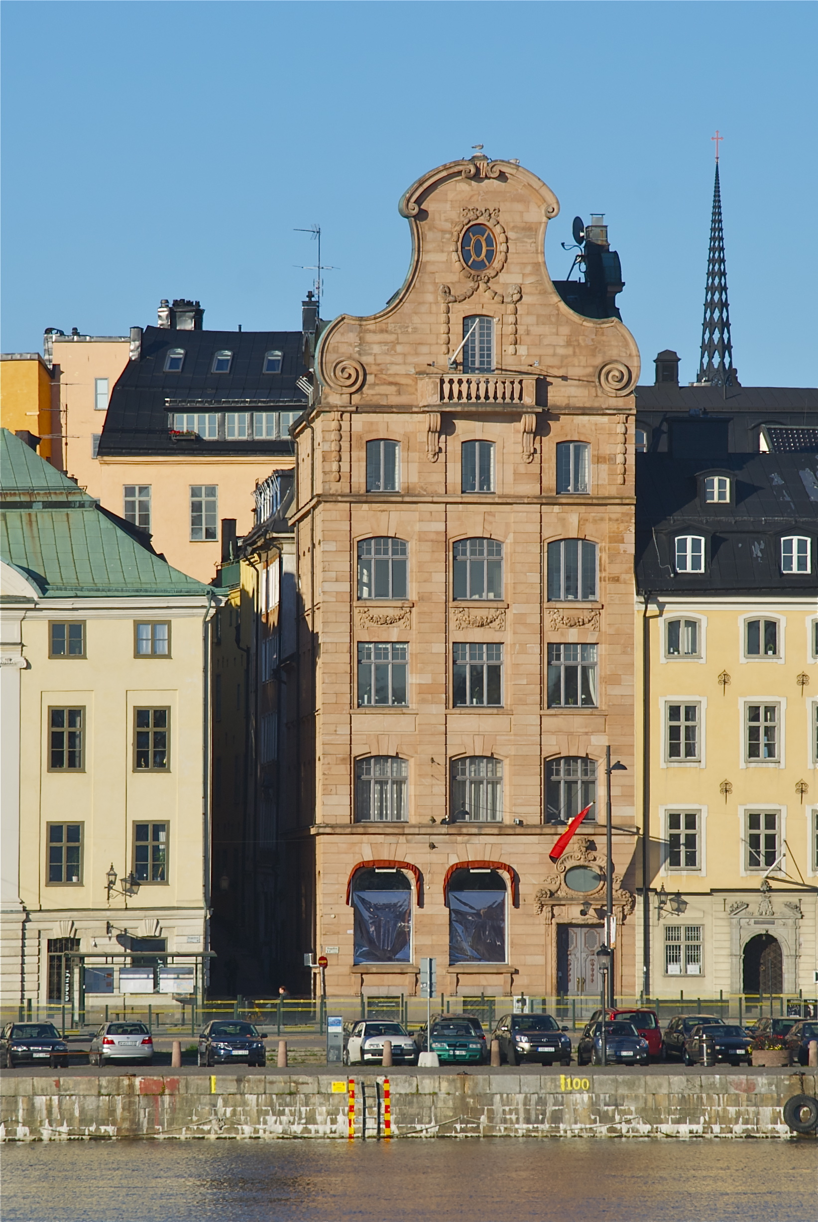 Skeppsbron 8 in Stockholm. Built 1901-02, architect Erik Josephson.